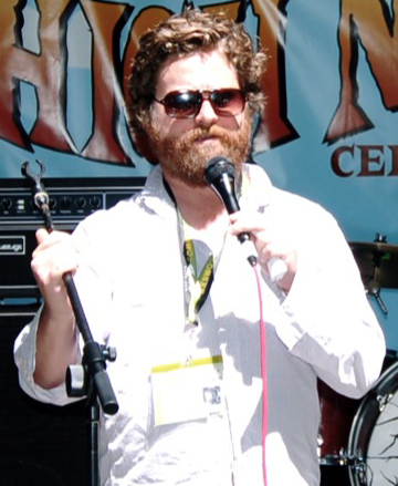 Zach Galifianakis in Austin, Texas